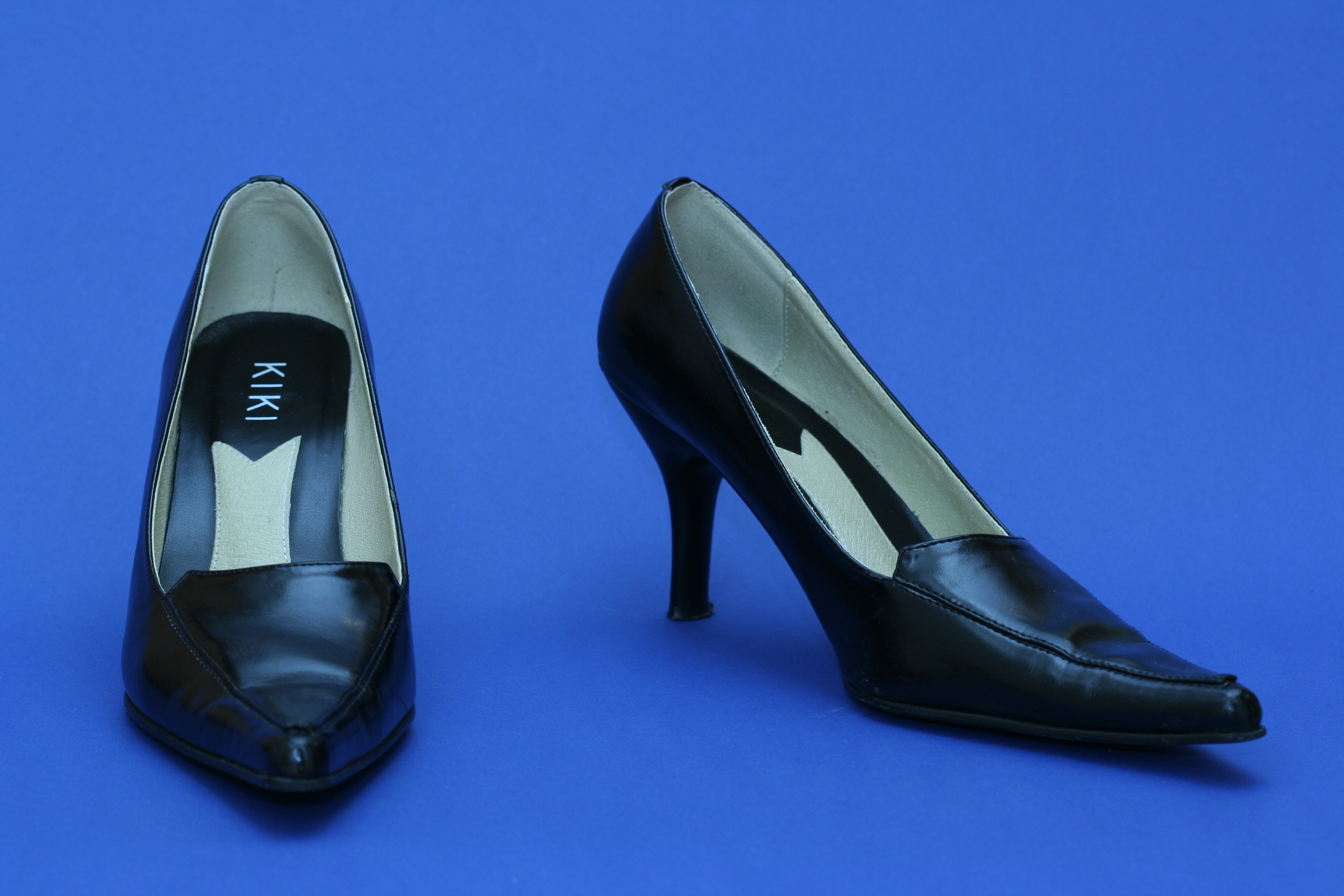 highheels with a blue background